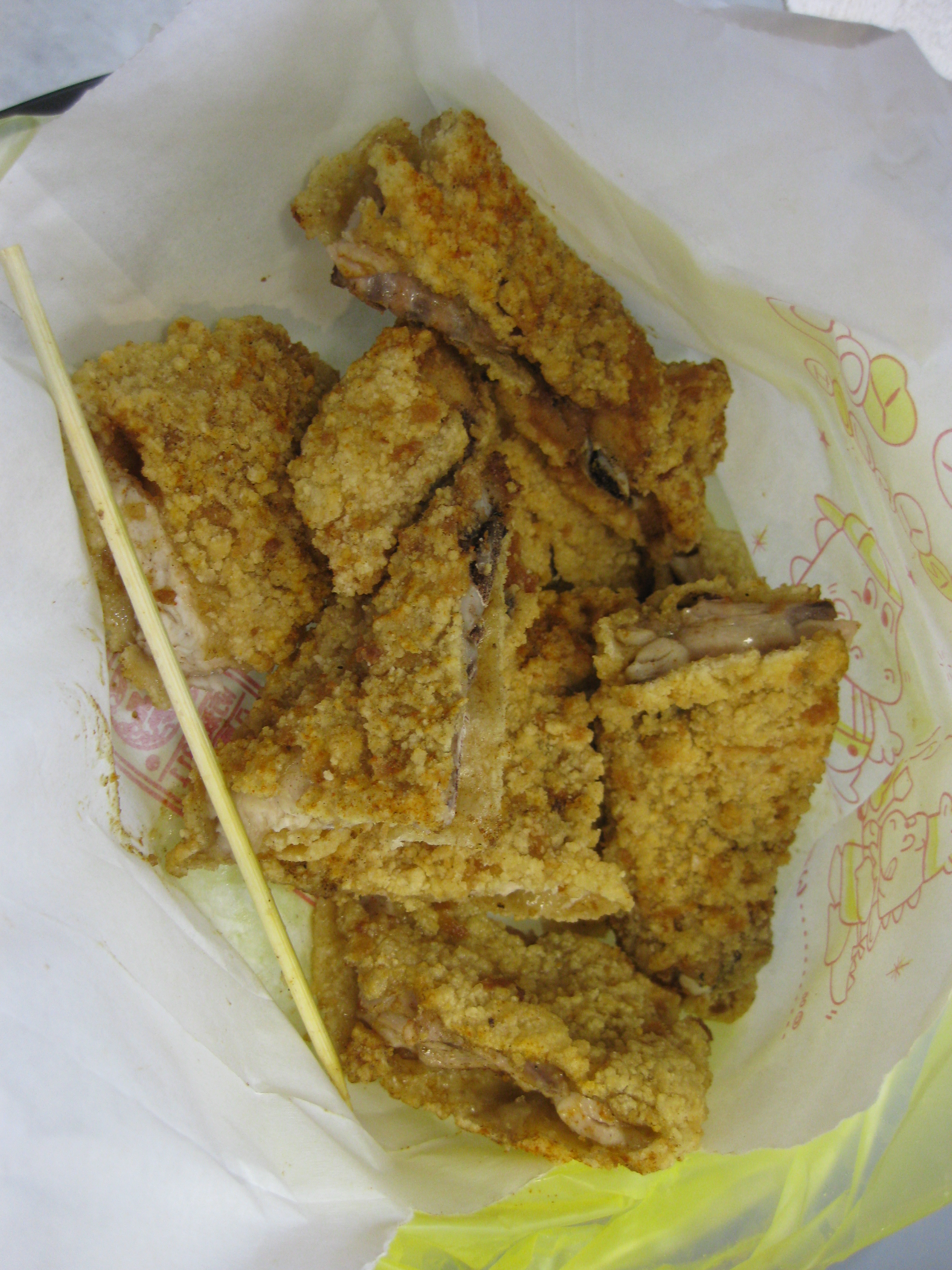 Deep fried chicken breast